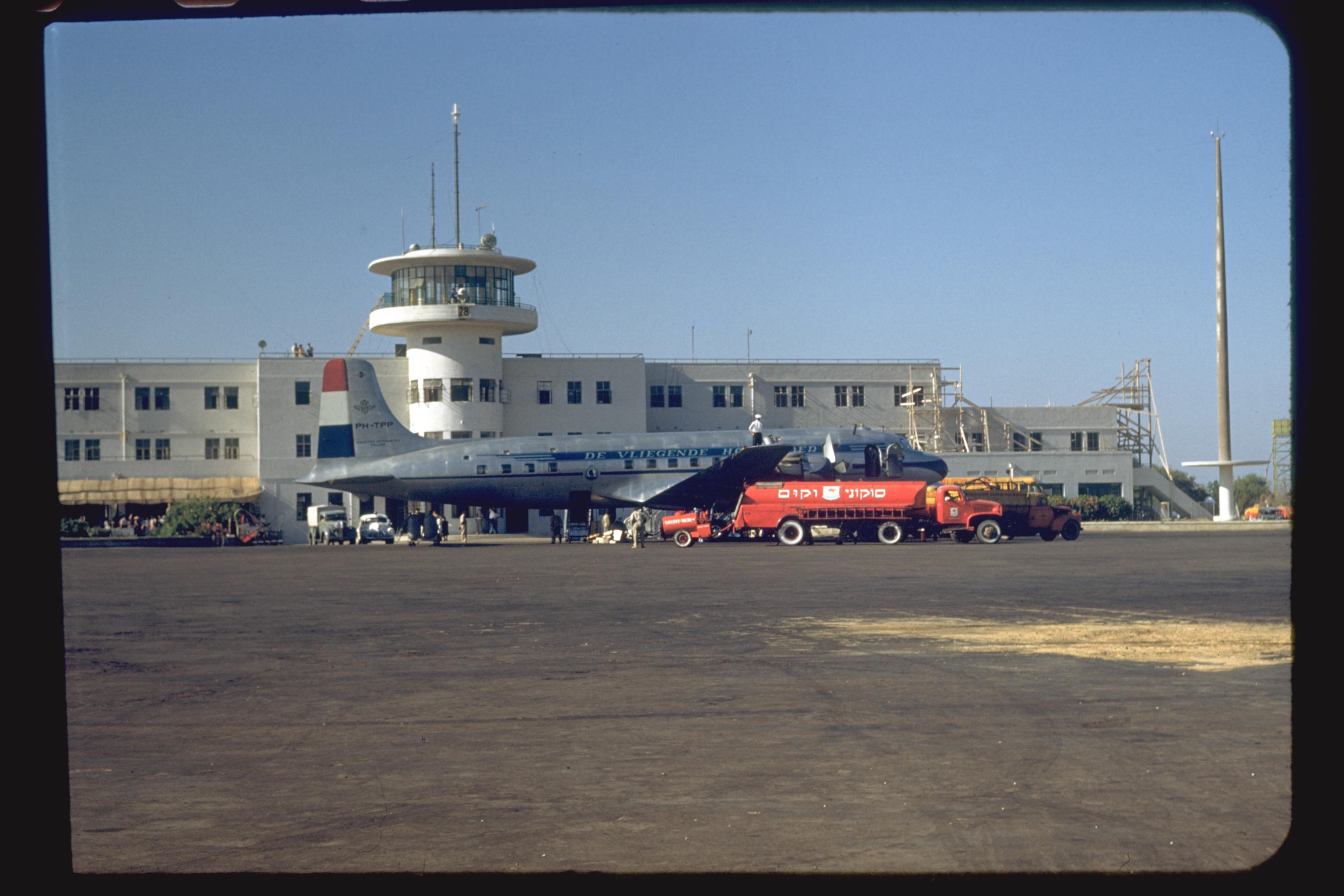 Original Description: INTERNATIONAL LOD AIRPORT.